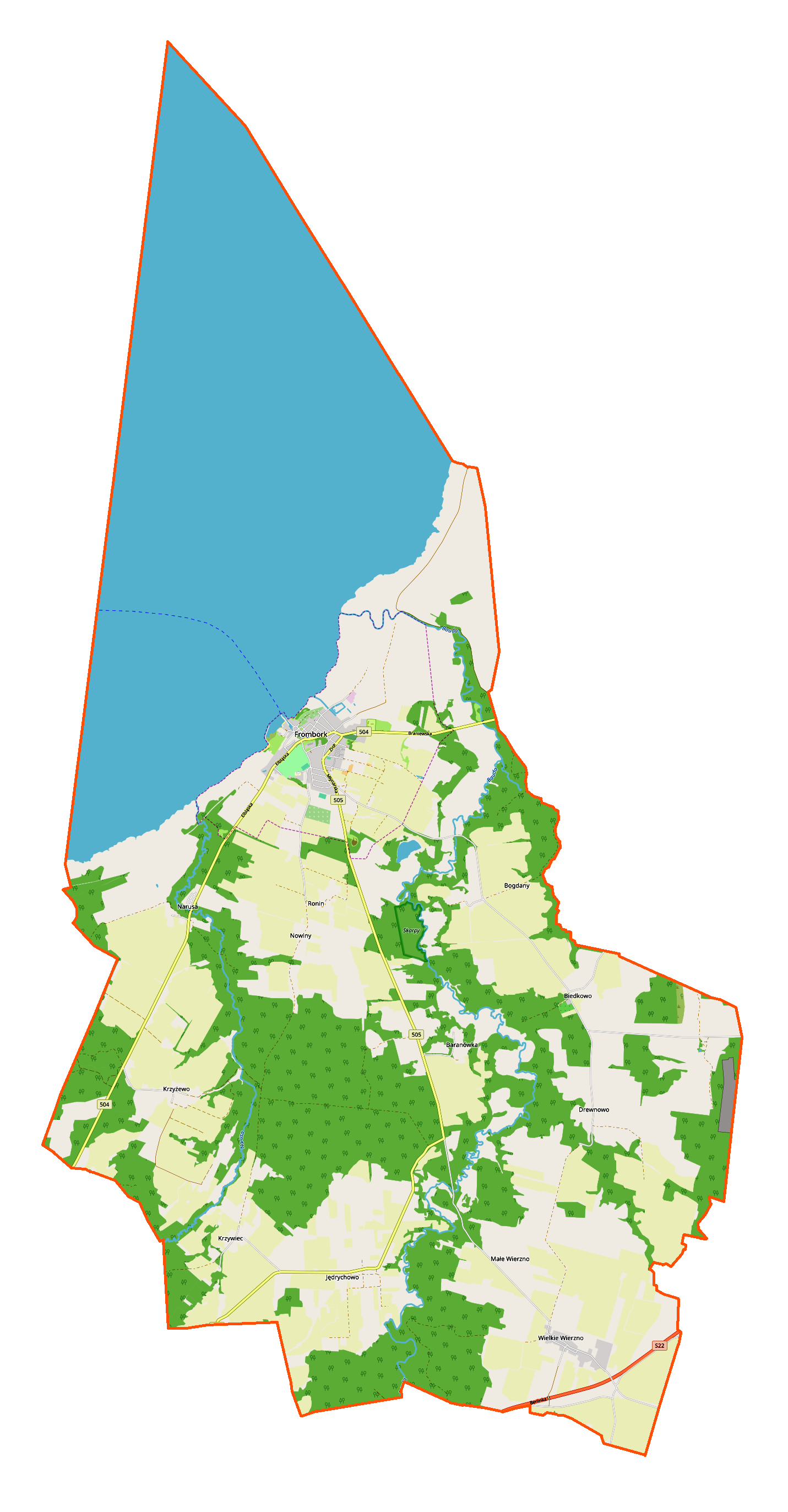 Location map